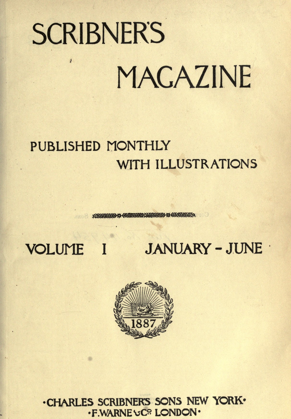 Scribner's Magazine from December 1899 with cover drawn by Maxfield Parrish